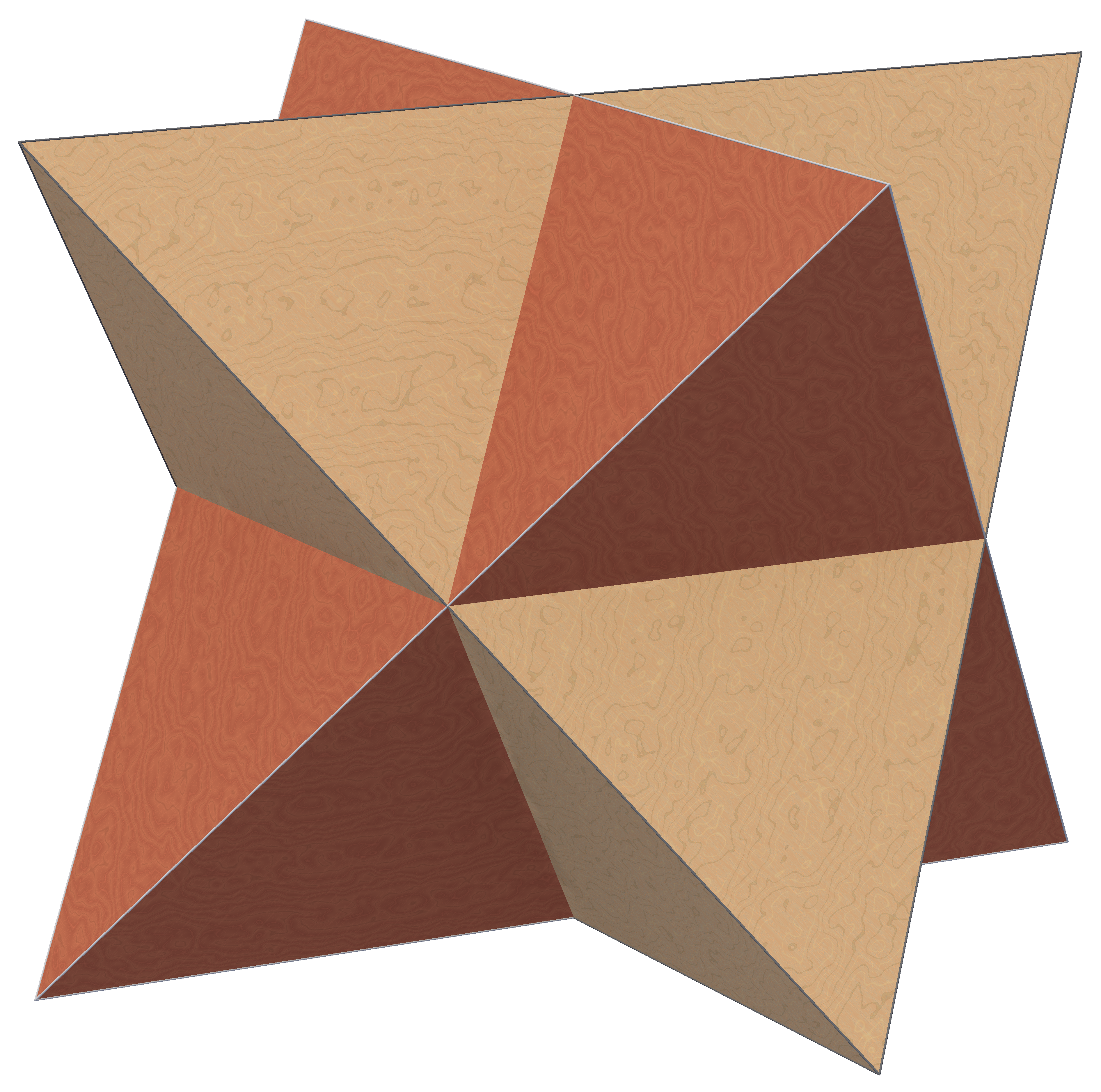 A compound of a light Archimedean (or Platonic) solid and its dark Catalan (or Platonic) dual with a form of tetrahedral symmetry For most images in this set the size of the compound is so chosen that their common midsphere is the one depicted on the right. An overview of these images can be found in the root category of this set: Dual compounds of wooden Platonic, Archimedean and Catalan solids This image was created with POV-Ray Please do not overwrite this image - especially not with a cropped version.